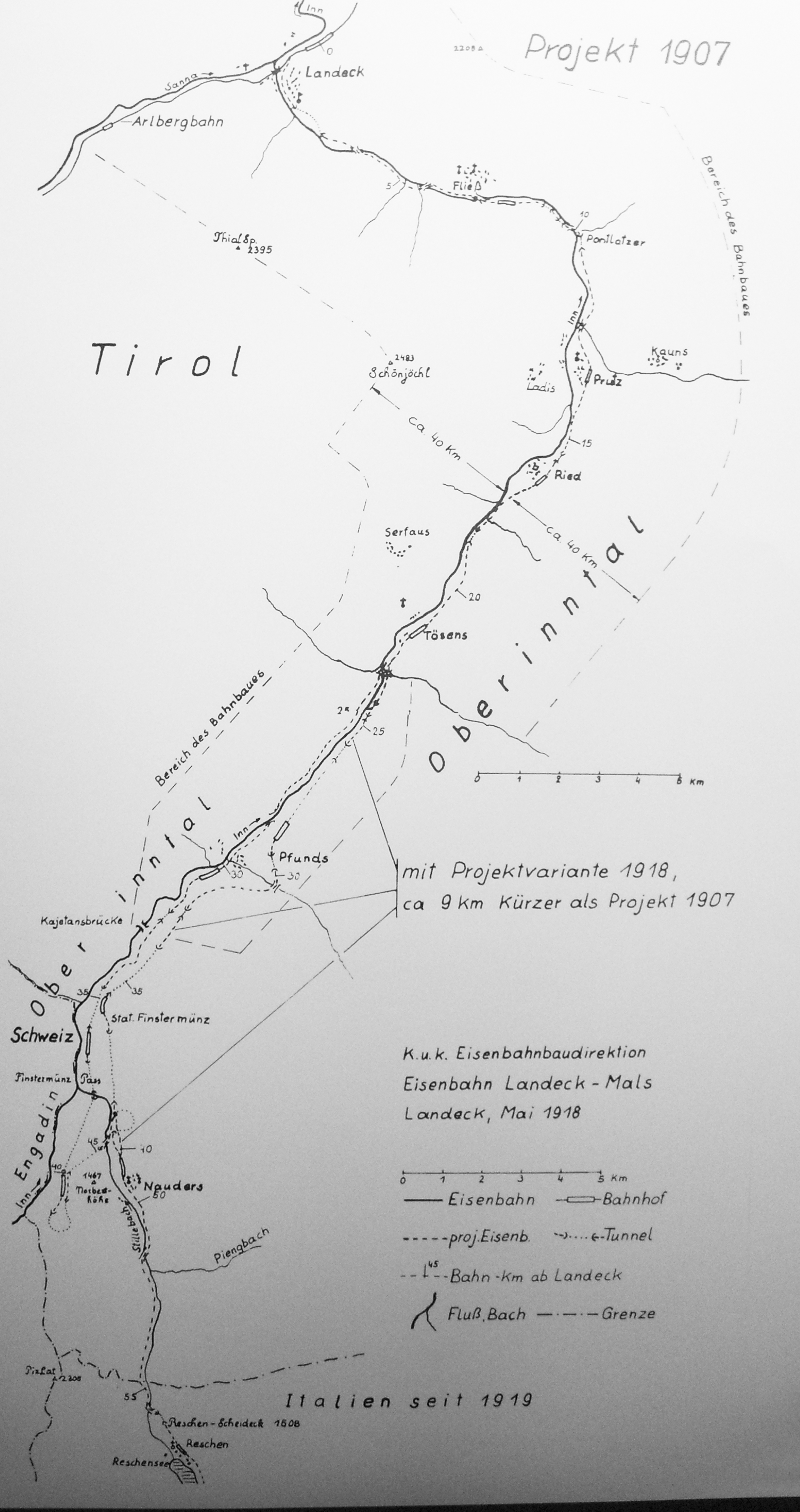 Drawings for a planed railway between Landeck (A) and Reschen (I)